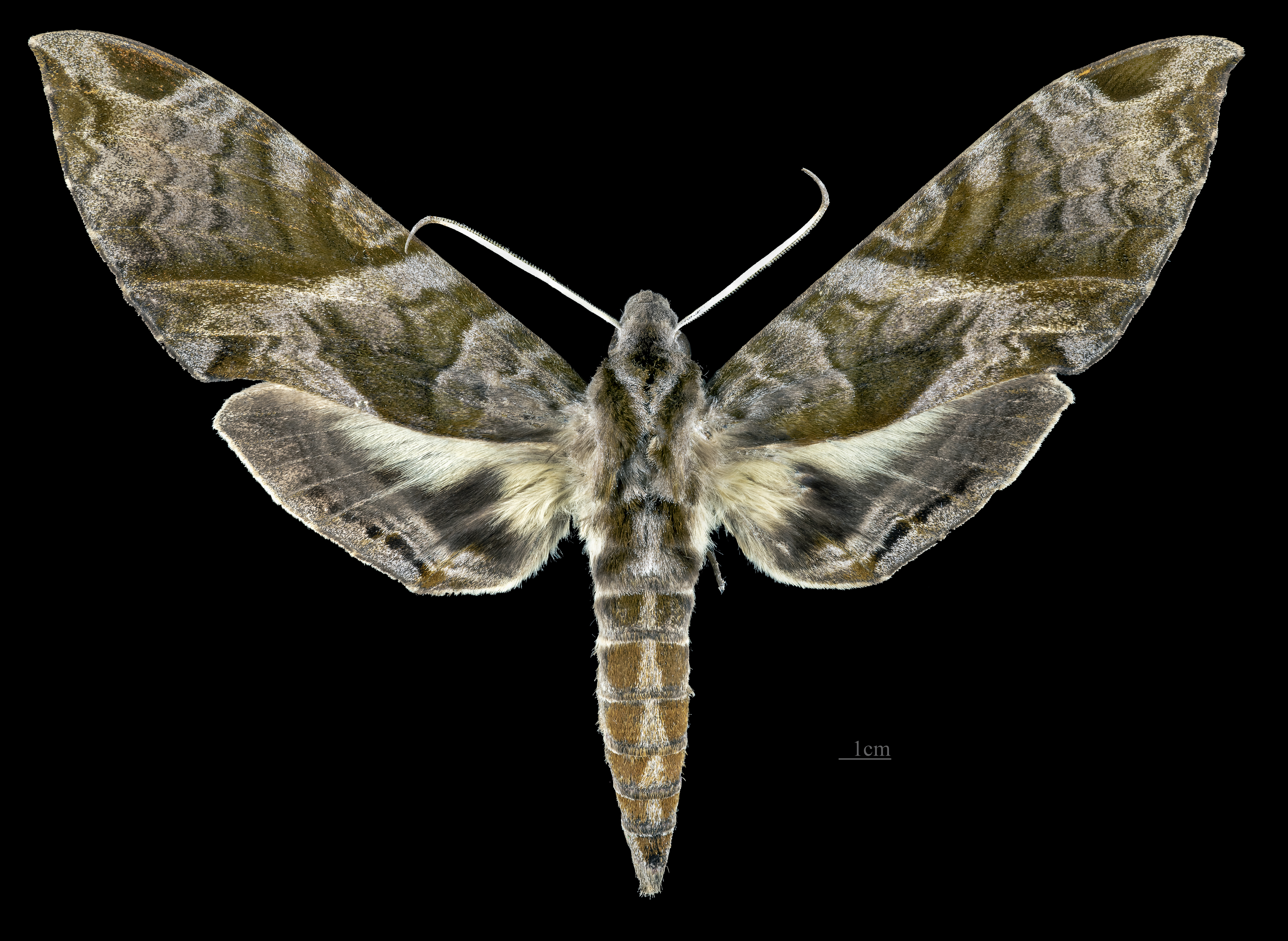 Eumorpha cissi - Dorsal side Collection of the Mathematician Laurent Schwartz